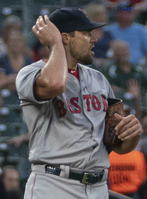 Red Sox at Orioles 8/10/18